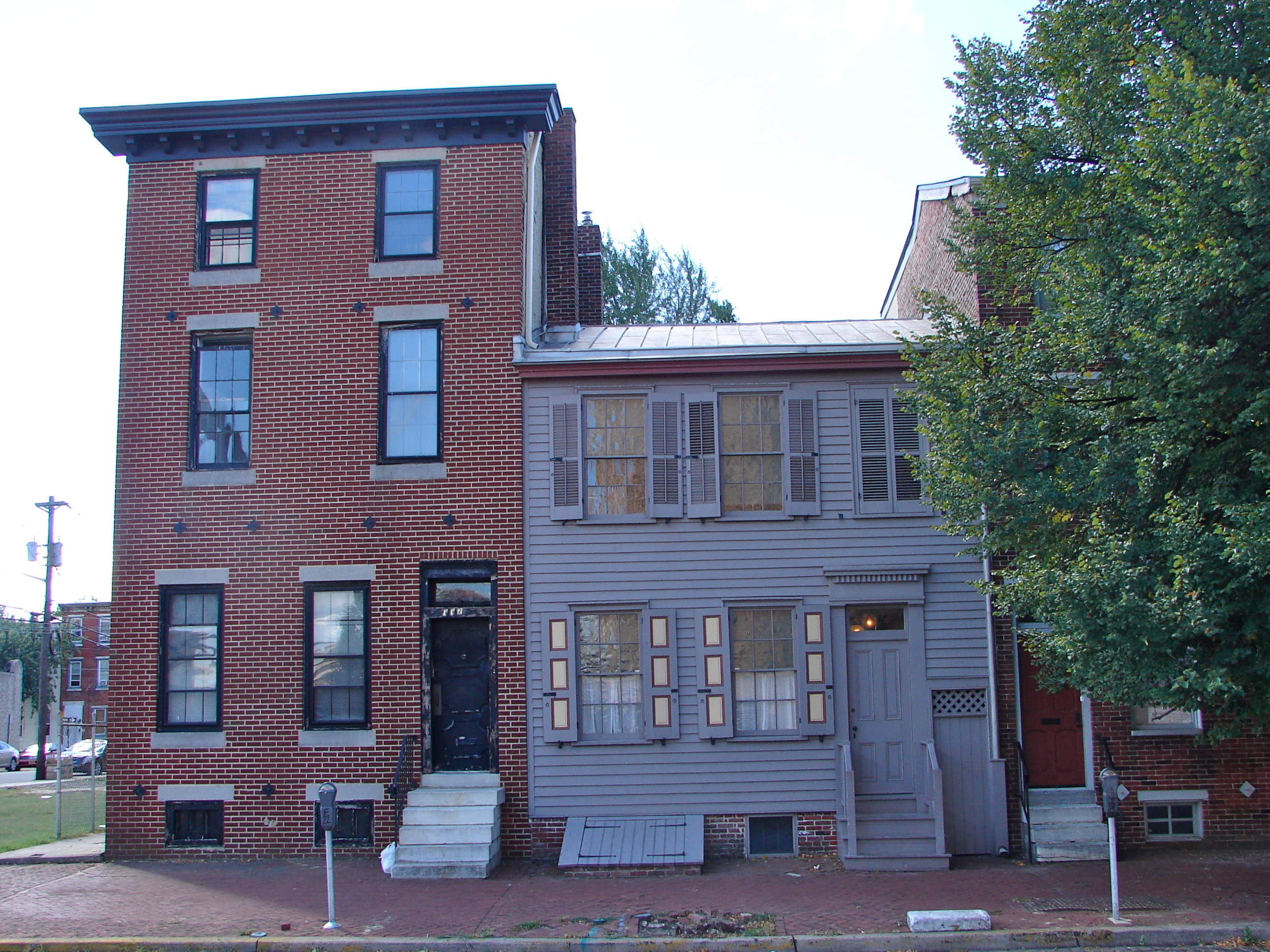 "Walt Whitman Neighborhood" as listed by the NRHP since January 20, 1978. At 326-332 Mickle St. (generally known as Martin Luther King Drive) in Camden, New Jersey. This name is something of an artifact of the NRHP. The wooden house in the middle is the NRHP site the "Walt Whitman House" the only house Walt ever owned. The house on the left is part of the newer NRHP site, and the house on the right behind the tree is as well, and perhaps another house (or is it a small addition?) to its right. Not sure whether Walt's house is part of the "neighborhood." Even if it were, the whole neighborhood is smaller than a medium sized house - which is perhaps why this site is not listed as a "historic district." In any case the photo is needed for the list of NRHPs in Camden County, New Jersey. The 3 story brick building on the left (330 Mickle St.) was the home of architect Stephen Decatur Button